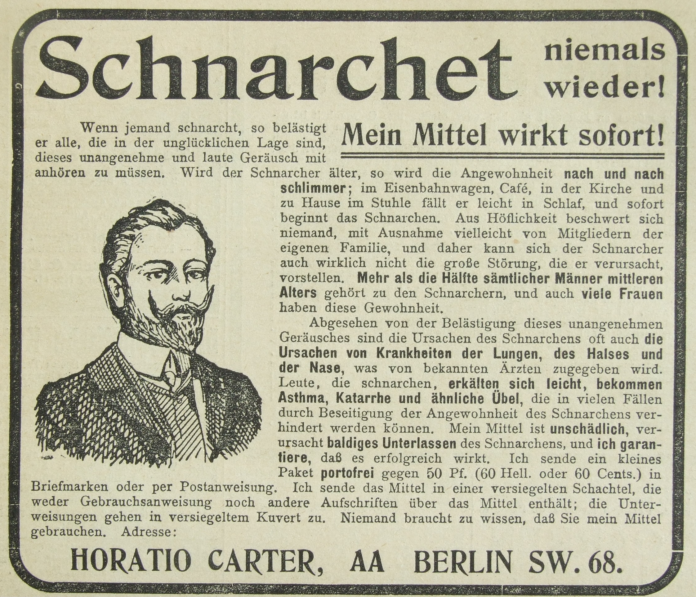 no snoring advertising 1906